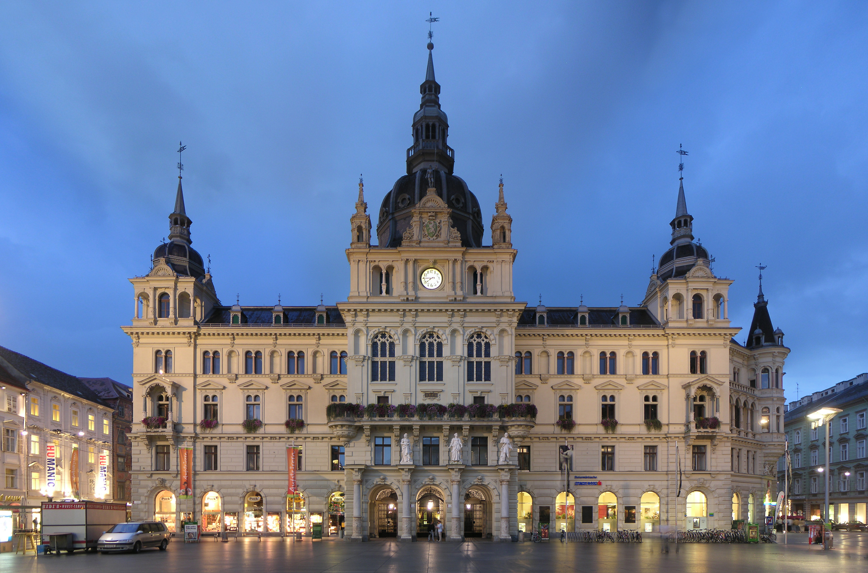 Rathaus (City Hall) in Graz, Austria. This is an edit of an existing file, with the perspective corrected and a few other minor alterations.